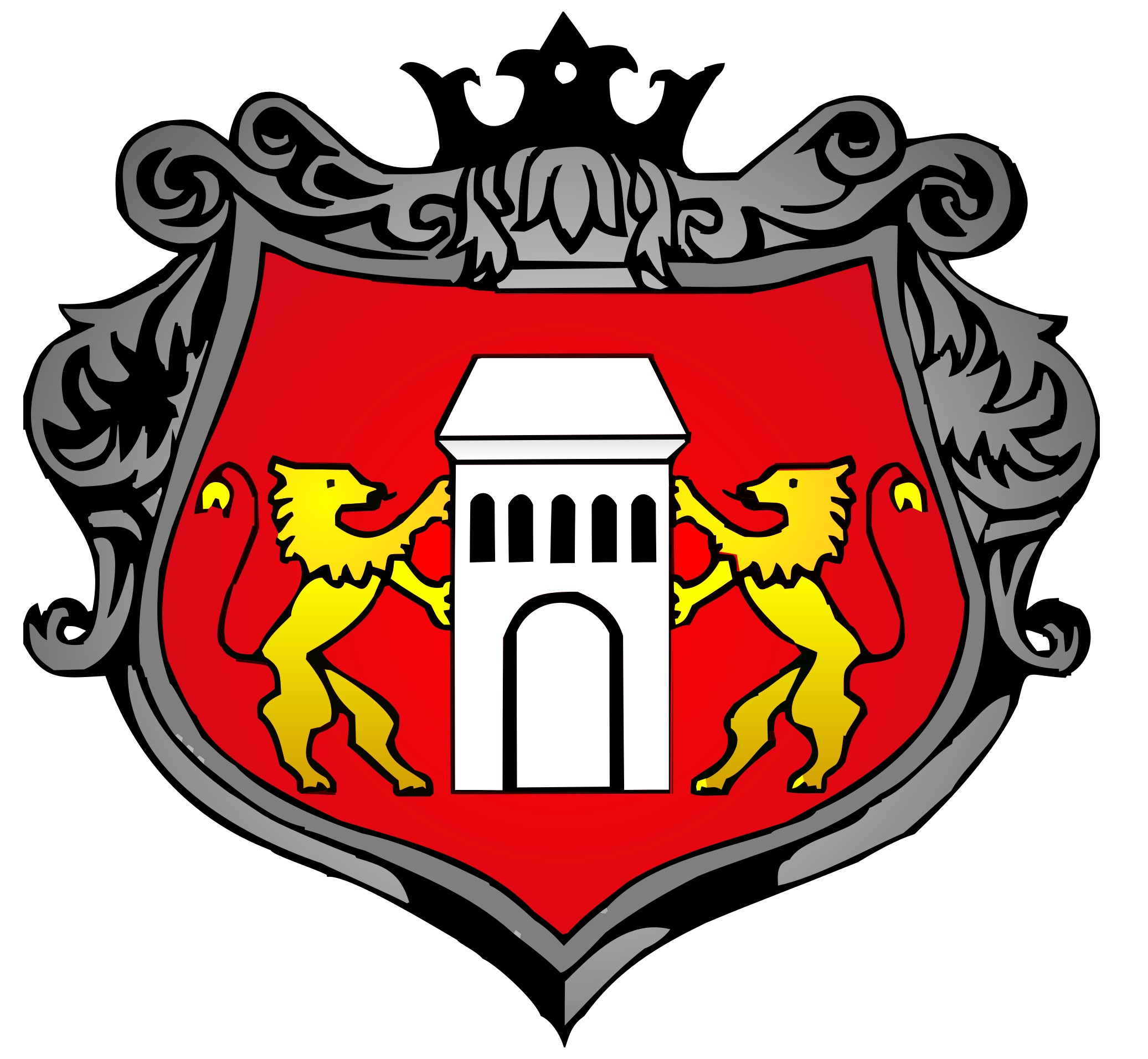 Niepolomice COA